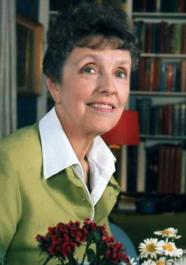 portrait of Joyce Grenfell in her apartment in London, 1972